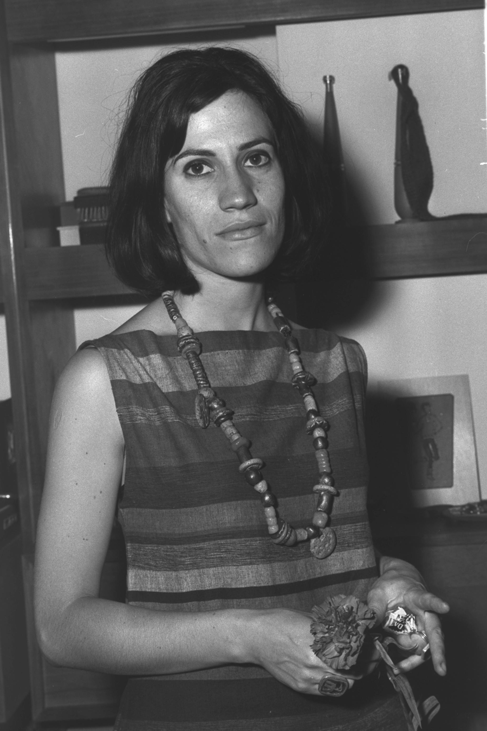 TEL AVIV PAINTER ZIONA SHIMSHI IN A "MASKIT" DRESS